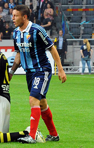 Kerim Mrabti